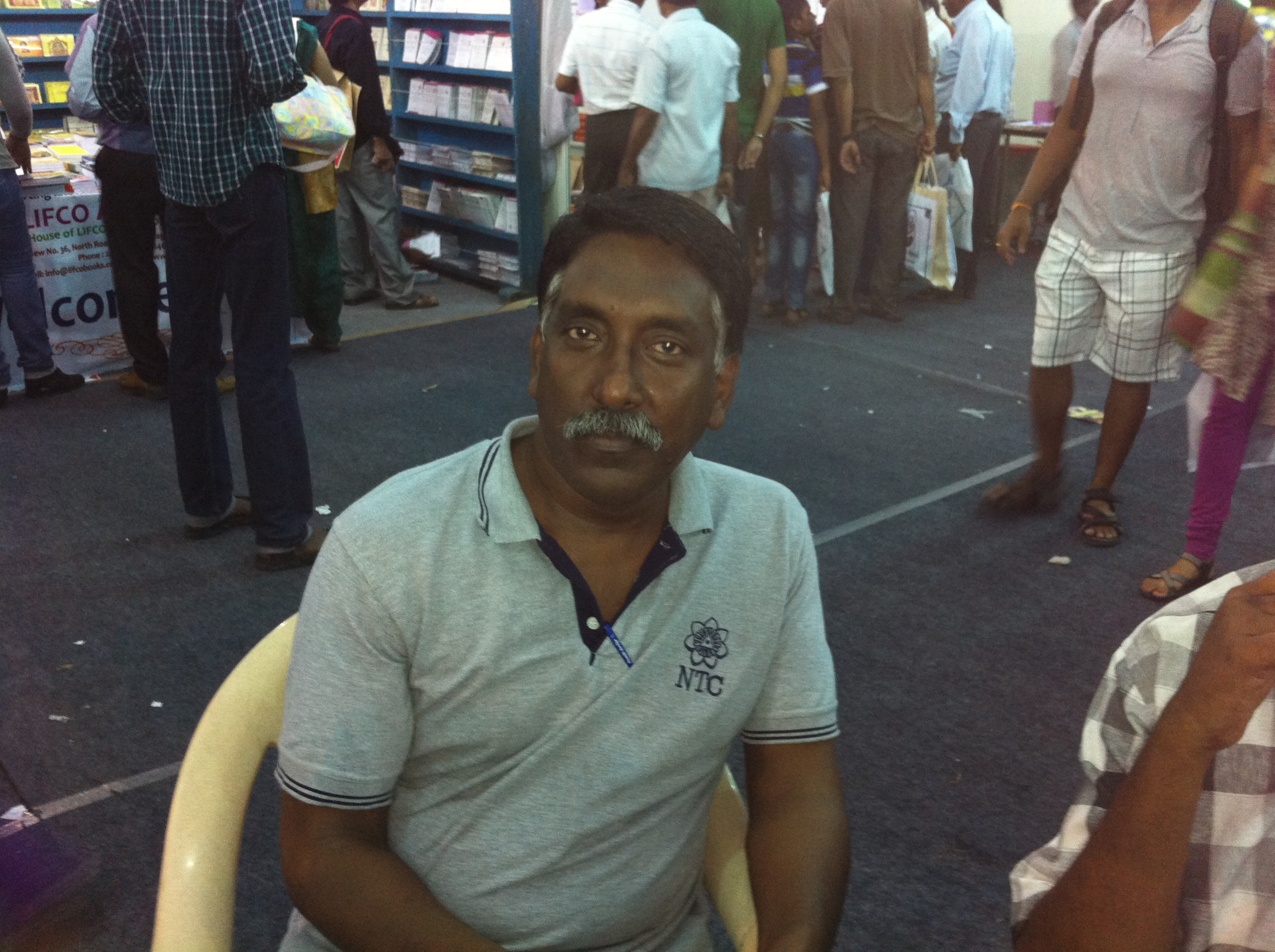 Joe DCruz at Chennai Book fair, 2014